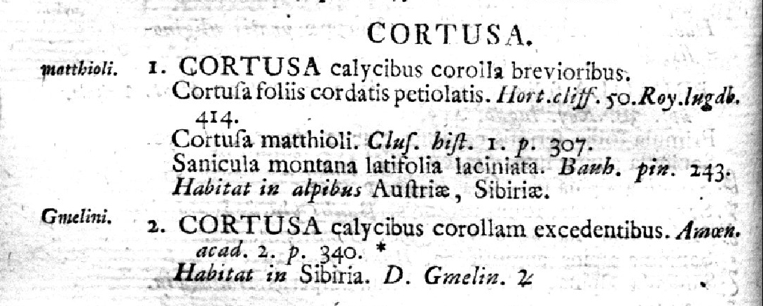 Cortusa matthioli. Description of the plant made by Linnaeus at Species plantarum